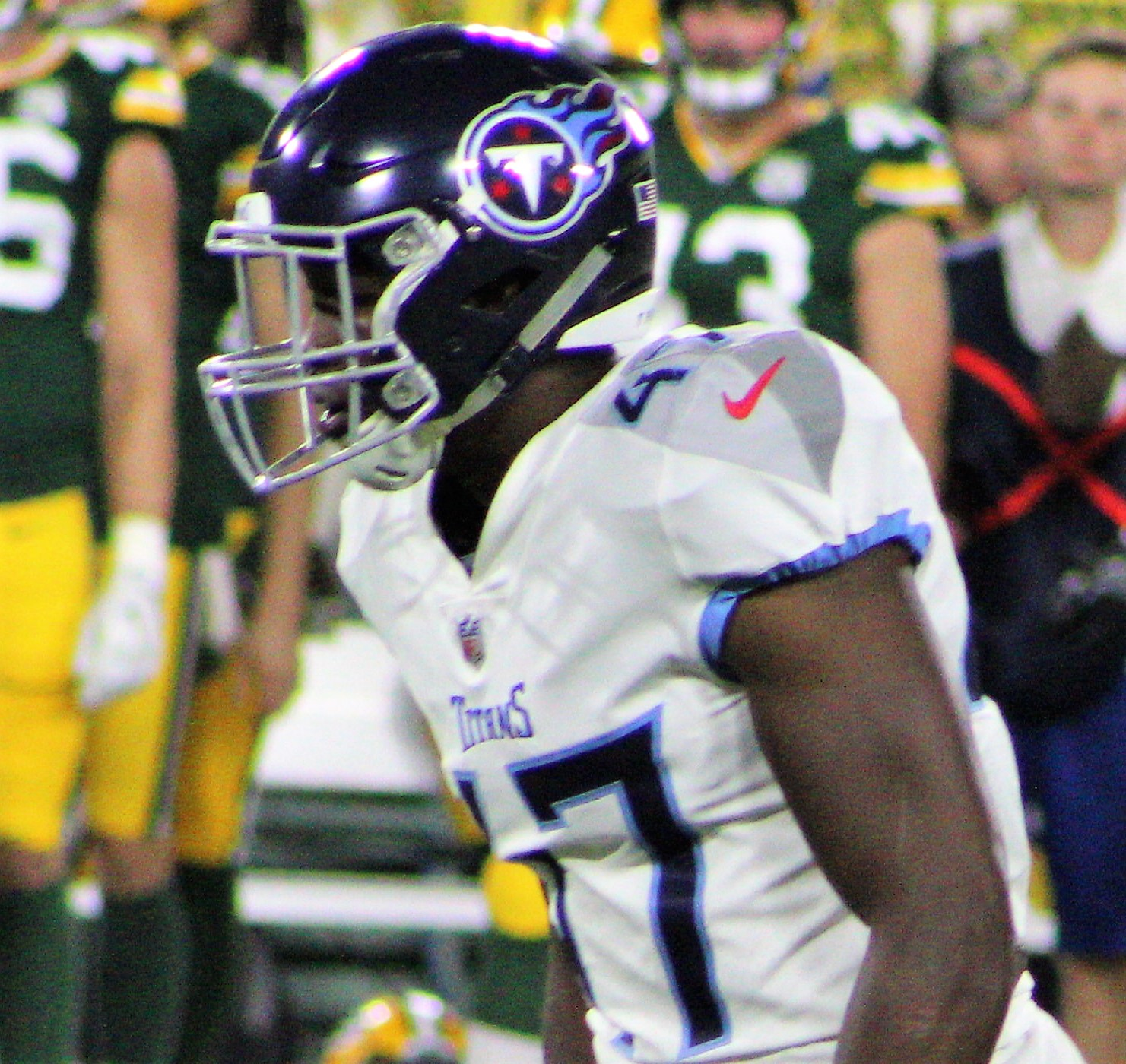 Joshua Kalu, Tennessee Titans at Green Bay Packers (Preseason), August 9, 2018